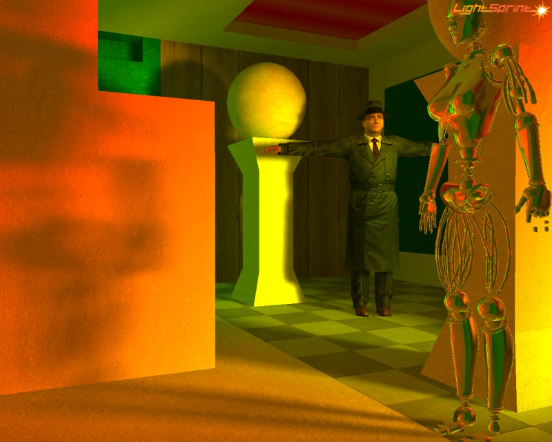 Example of Penumbra Shadows in Computer Graphics